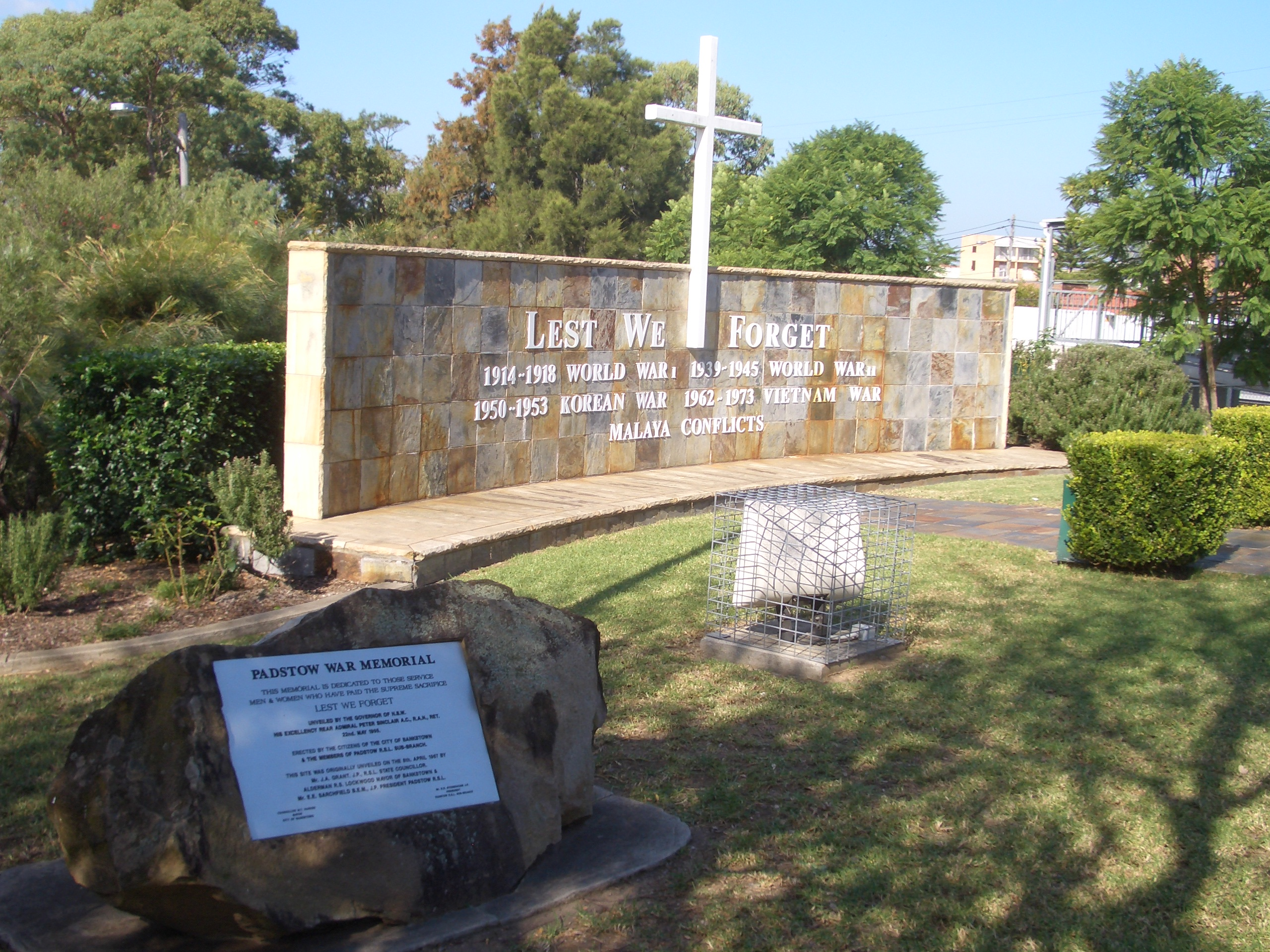 Padstow War Memorial, Memorial Drive